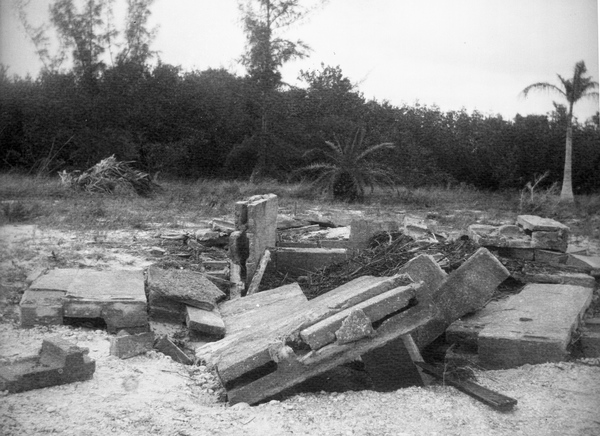 Aftermath of the 1921 Tampa Bay hurricane.